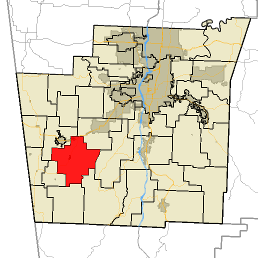 This is a map of Washington County, Arkansas which highlights the location of Cane Hill Township.